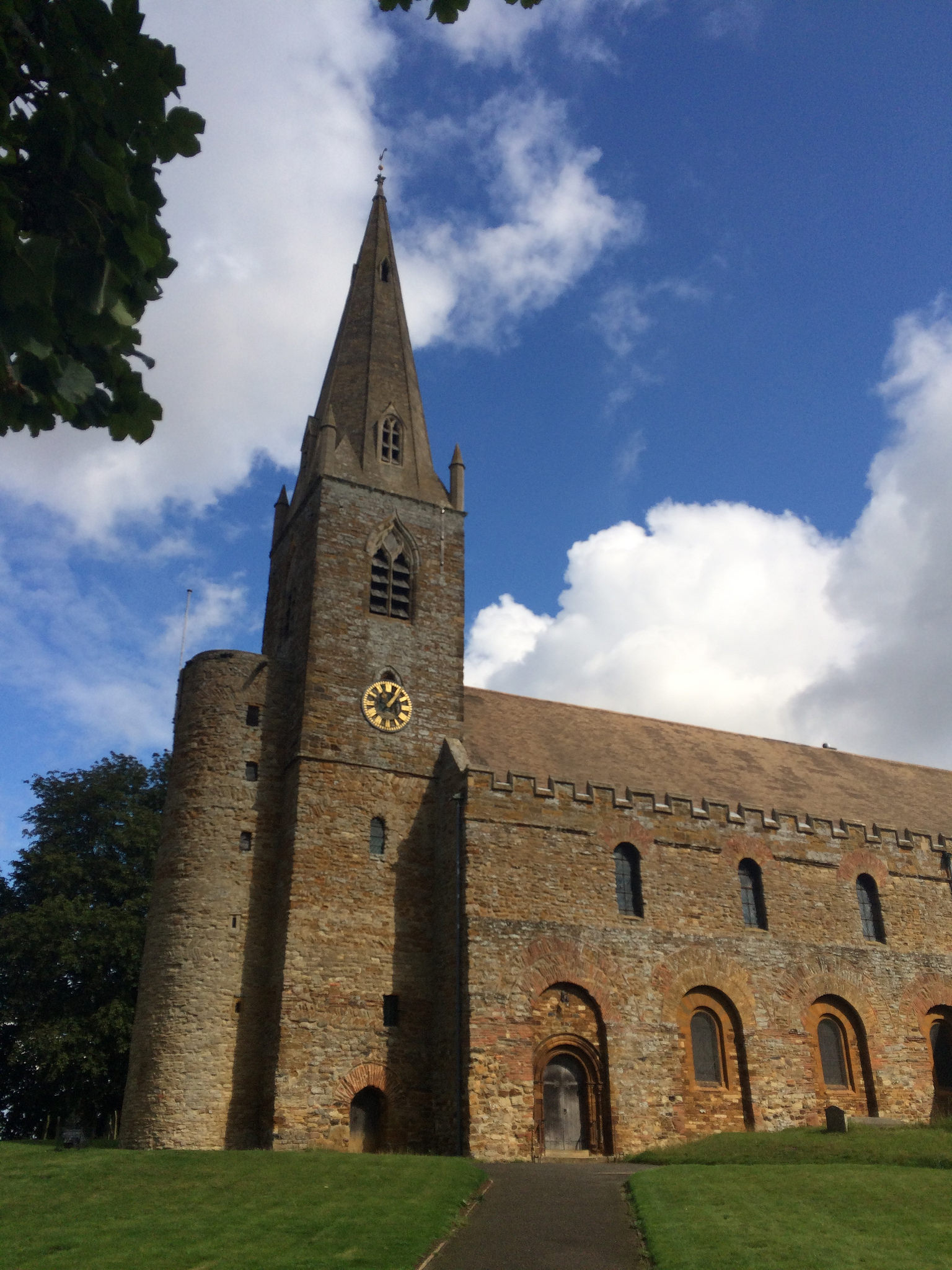 Image of All Saints' Church, Brixworth, UK